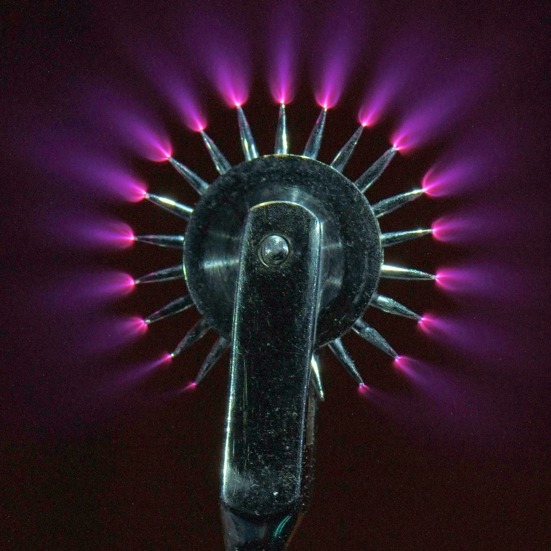 Corona discharge from a Wartenberg pinwheel in air caused by applying a high voltage, ~30kV. More details at